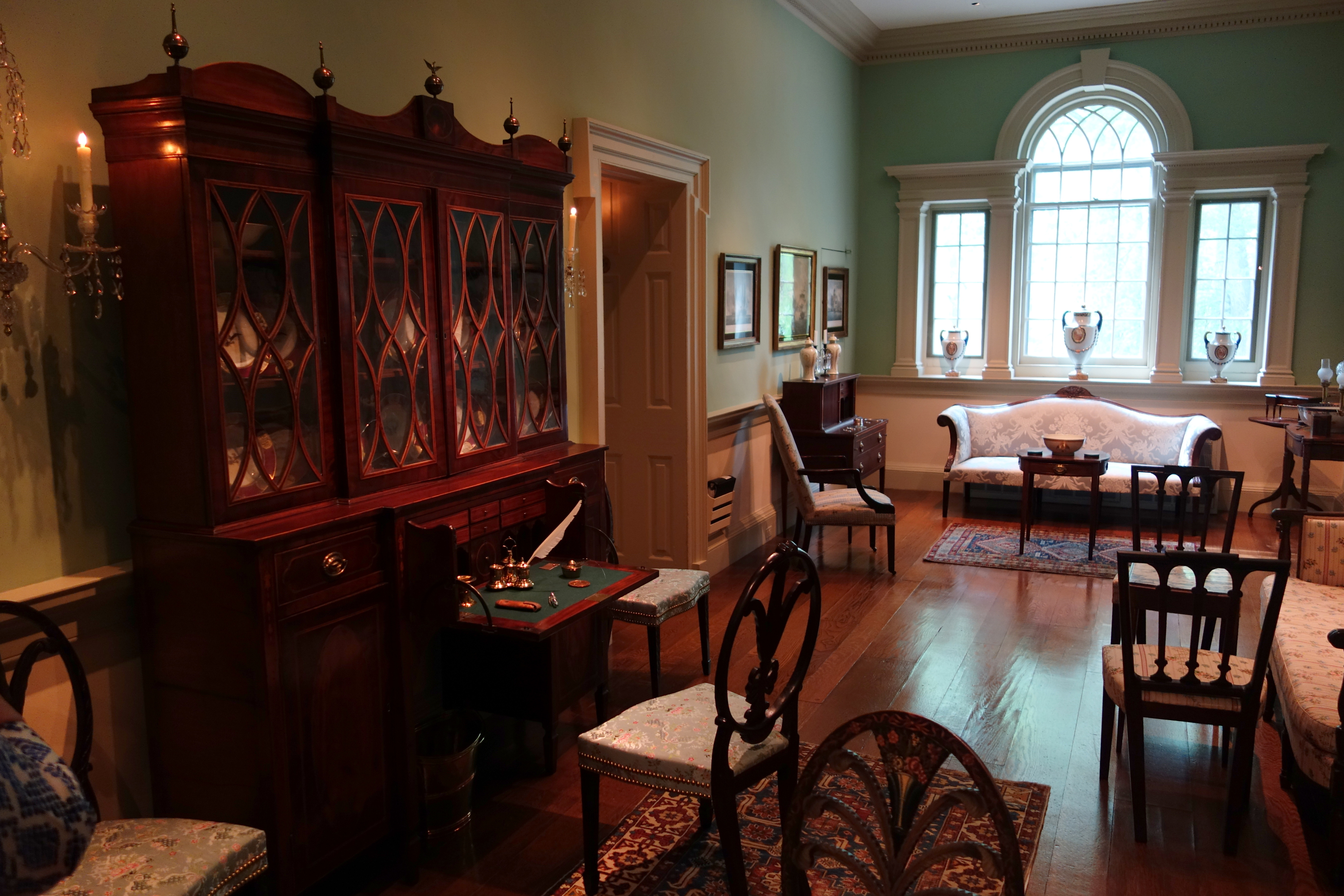 Exhibit in the Winterthur Museum, New Castle County, Delaware, USA. This work is in the public domain because the artist died more than 70 years ago.